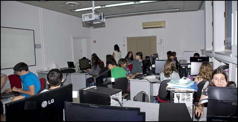 Wikimedia's Wikipedia Editing Workshop for Alpha students, Tel Aviv University, Israel